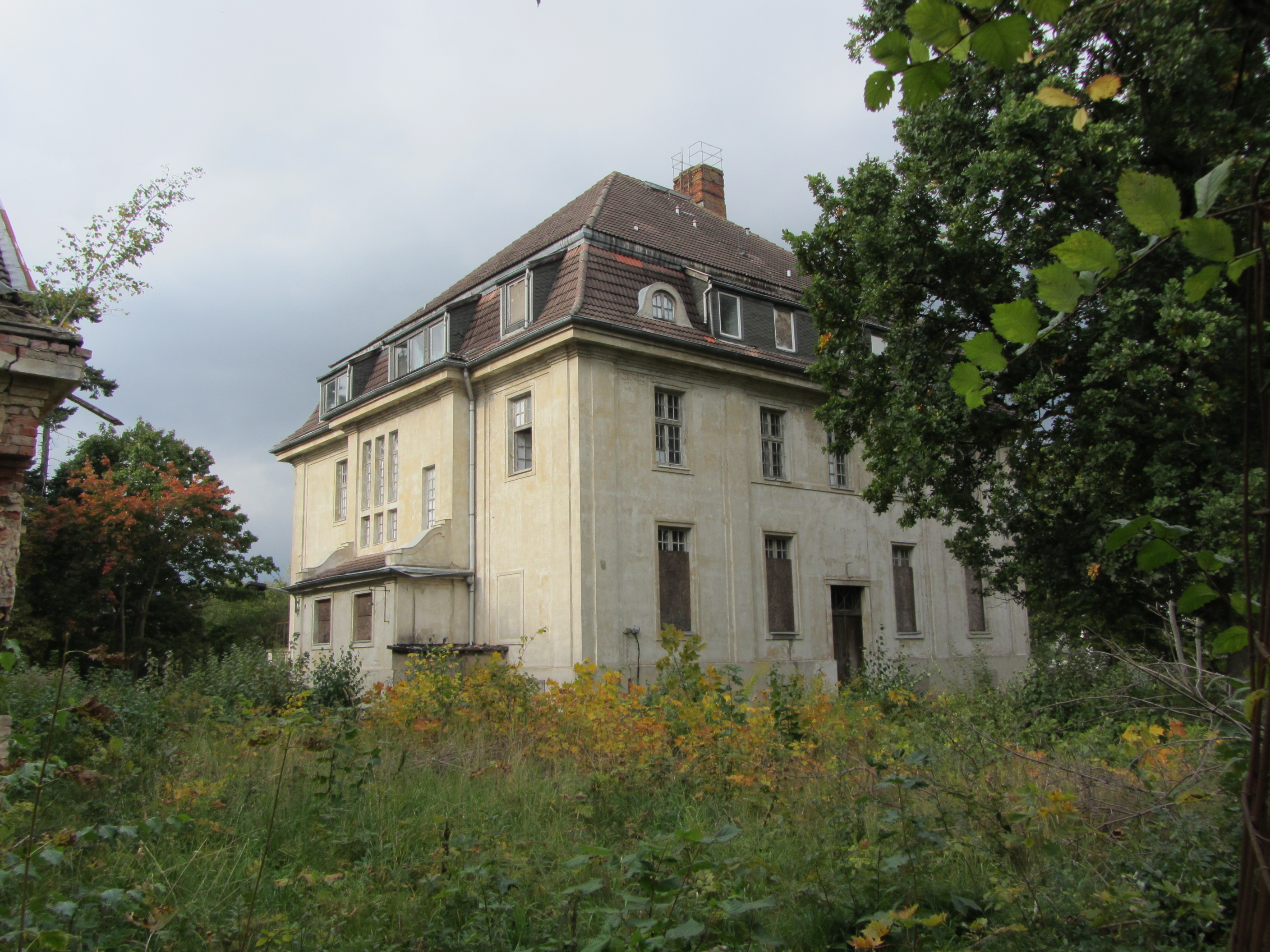 Abandoned villa in the Weinbergstraße in Schwerin, Mecklenburg-Vorpommern, Germany